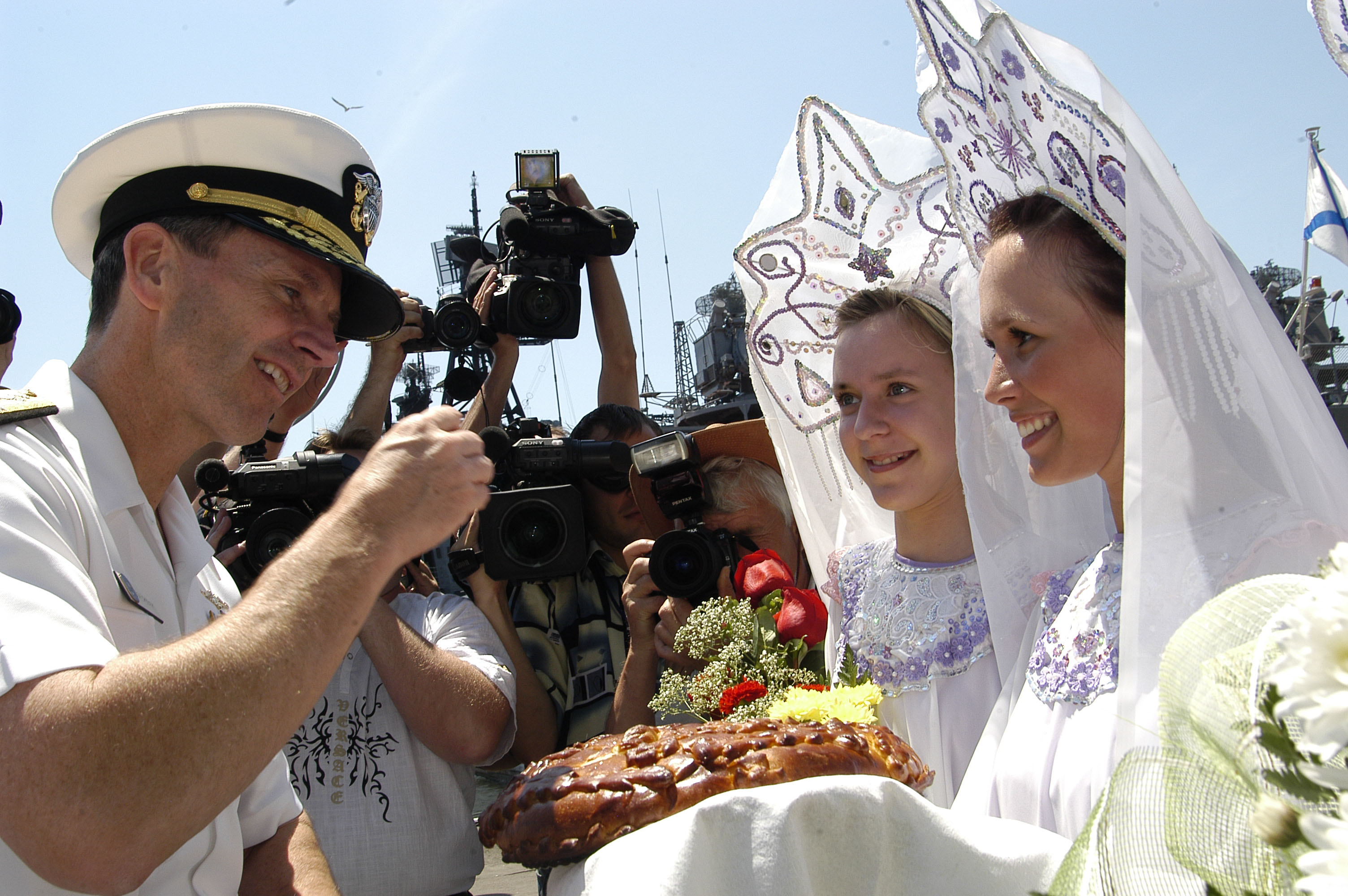 Vladivostok, Russia (July 3, 2006) - Vice Adm. Jonathan Greenert, commander, U.S. Seventh Fleet, takes part in a cultural exchange ceremony during a routine port visit to Vladivostok, Russia. Vice Adm. Greenert is embarked aboard the amphibious command ship USS Blue Ridge (LCC 19) U.S. Navy photo by Mass Communication Specialist 1st Class Terry Spain (RELEASED)